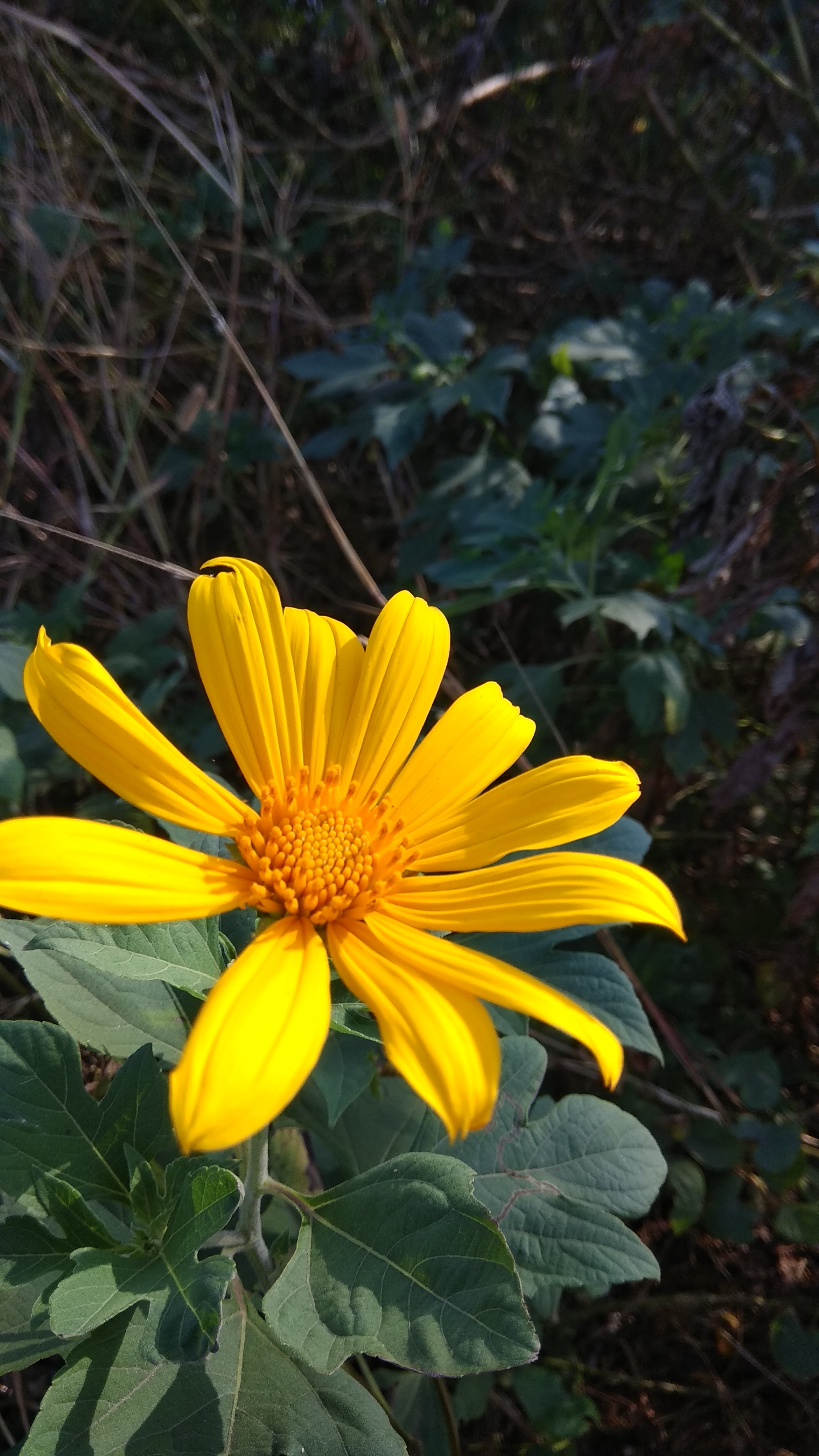 Kipahit flower